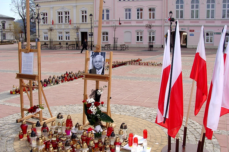 Sanok after president's plane crash 2010